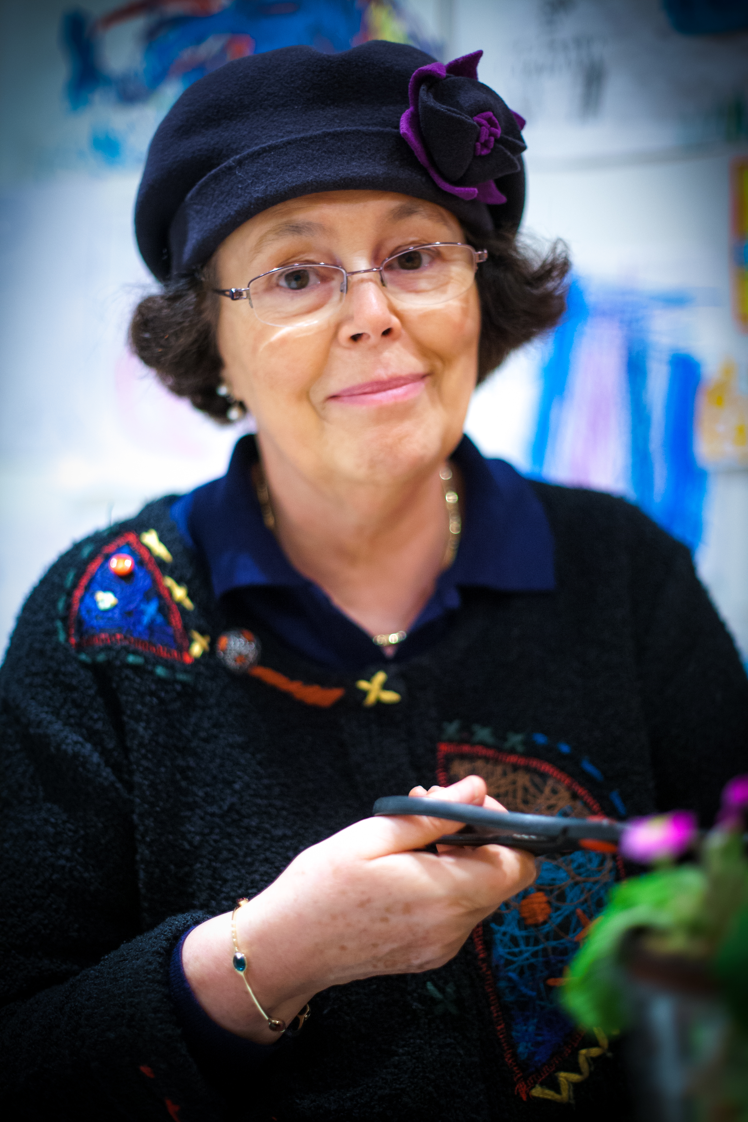 Portrait of the sinologist